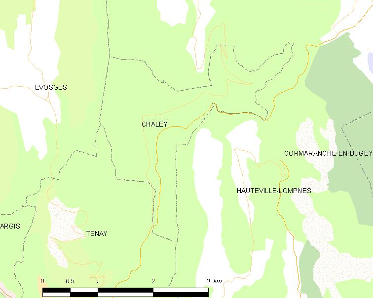 Map of French commune: Chaley Map commune FR insee code 01076.png